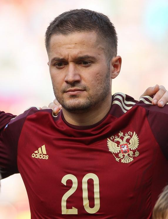 Viktor Fayzulin representing Russian national team in a friendly game against Morocco in Moscow.